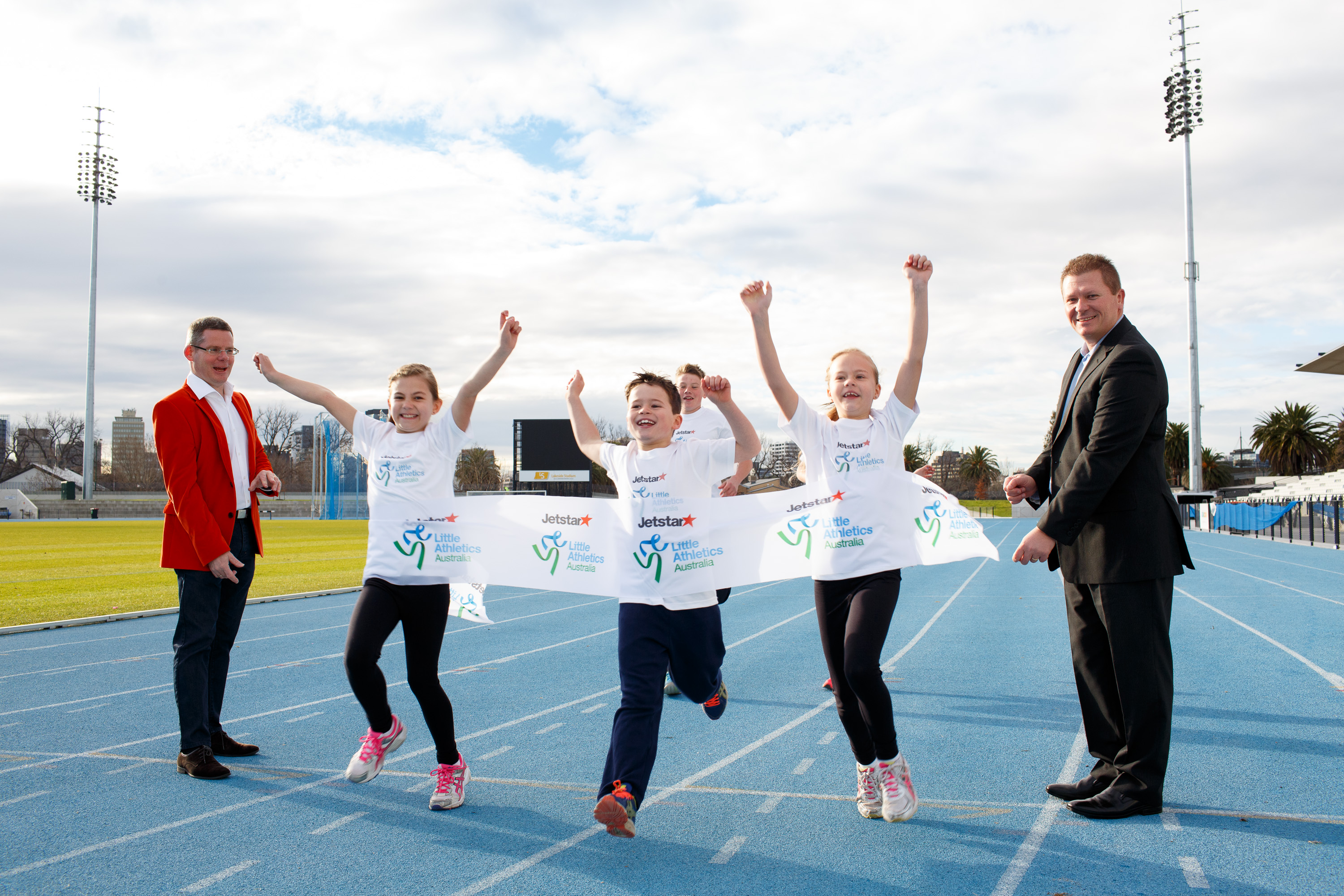 Jetstar launches Little Athetics partnership. L-R David Hall, Alexandra Stillman, Cameron Hilderbrand, Cody Rodwell, Alanna Stillman and Martin Stillman.